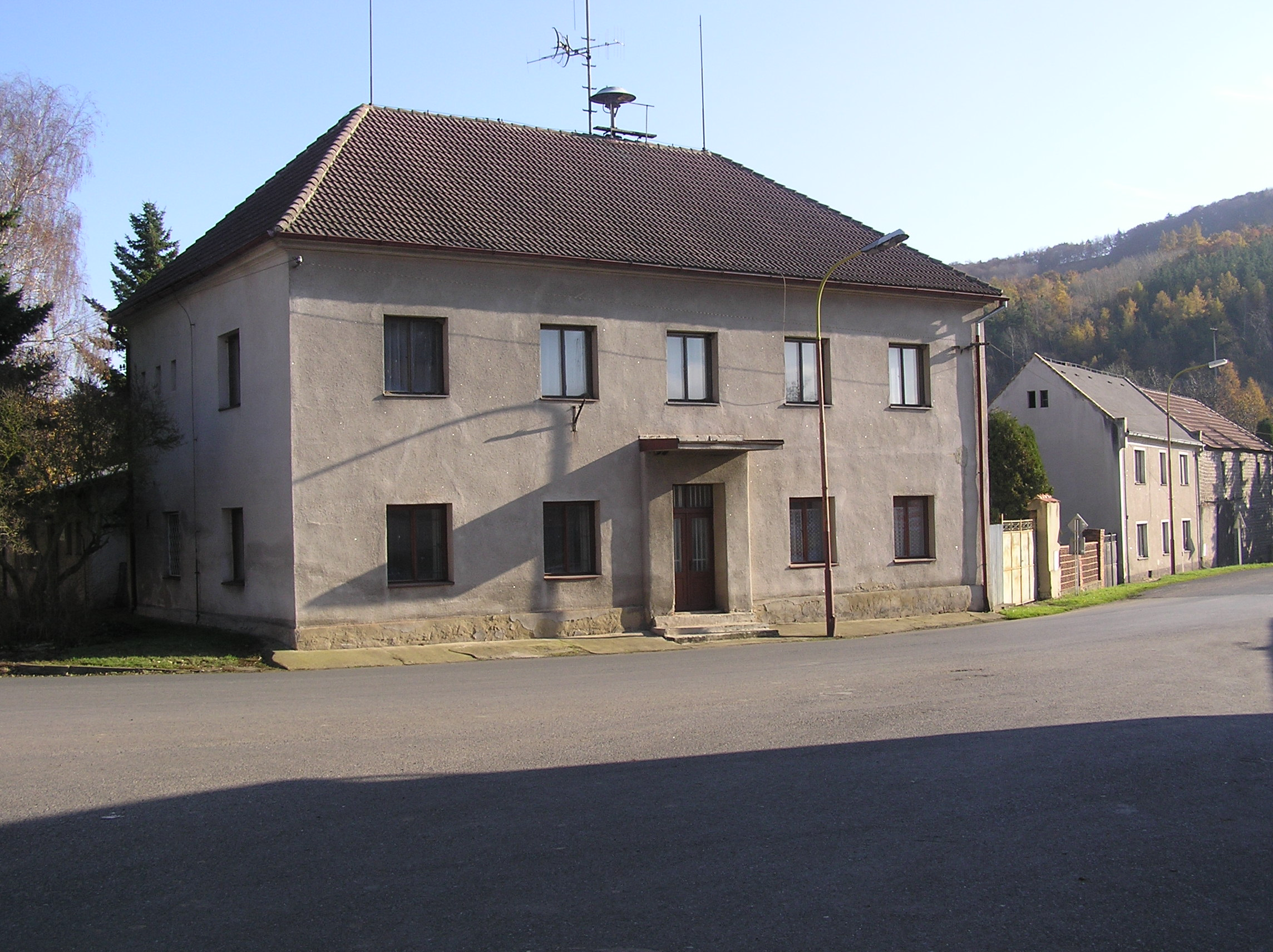 Old school in Hřivice from 1864